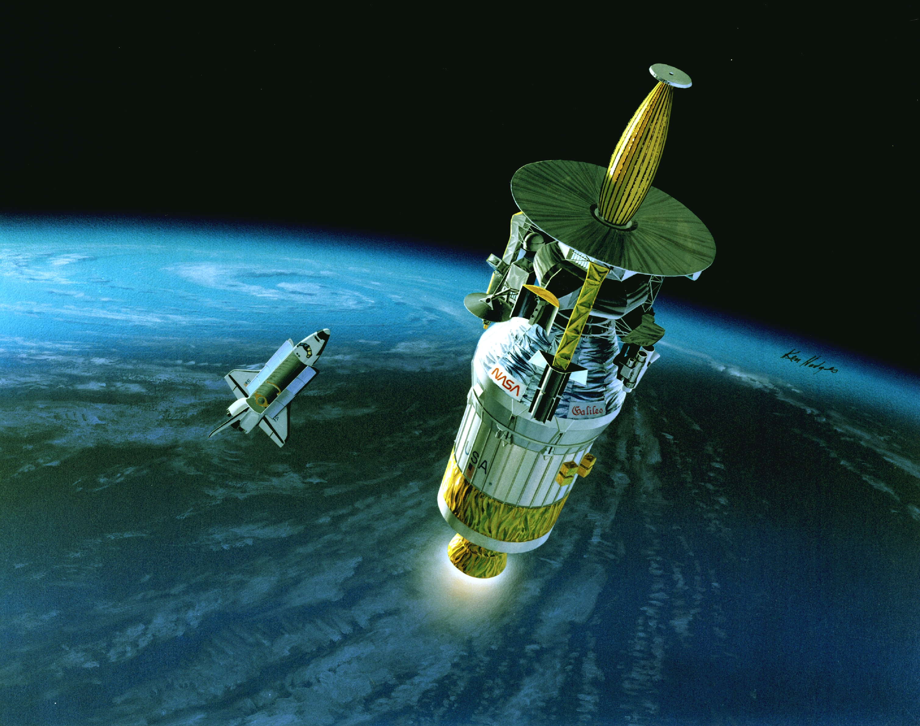 The Galileo spacecraft atop its two-stage Inertial Upper Stage has just been released from the space shuttle in this artist's rendering. Galileo is scheduled to be launched to Jupiter in October or November 1989. The reconfigured spacecraft includes the small sunshade atop the furlable antenna and a large sunshade below the antenna to protect the spacecraft and instruments in its six-year voyage which includes a gravity-assist encounter at Venus and two at Earth to reach sufficient velocity to reach Jupiter by November 1995. The trajectory has been dubbed VEEGA, for Venus-Earth-Earth Gravity Assist.